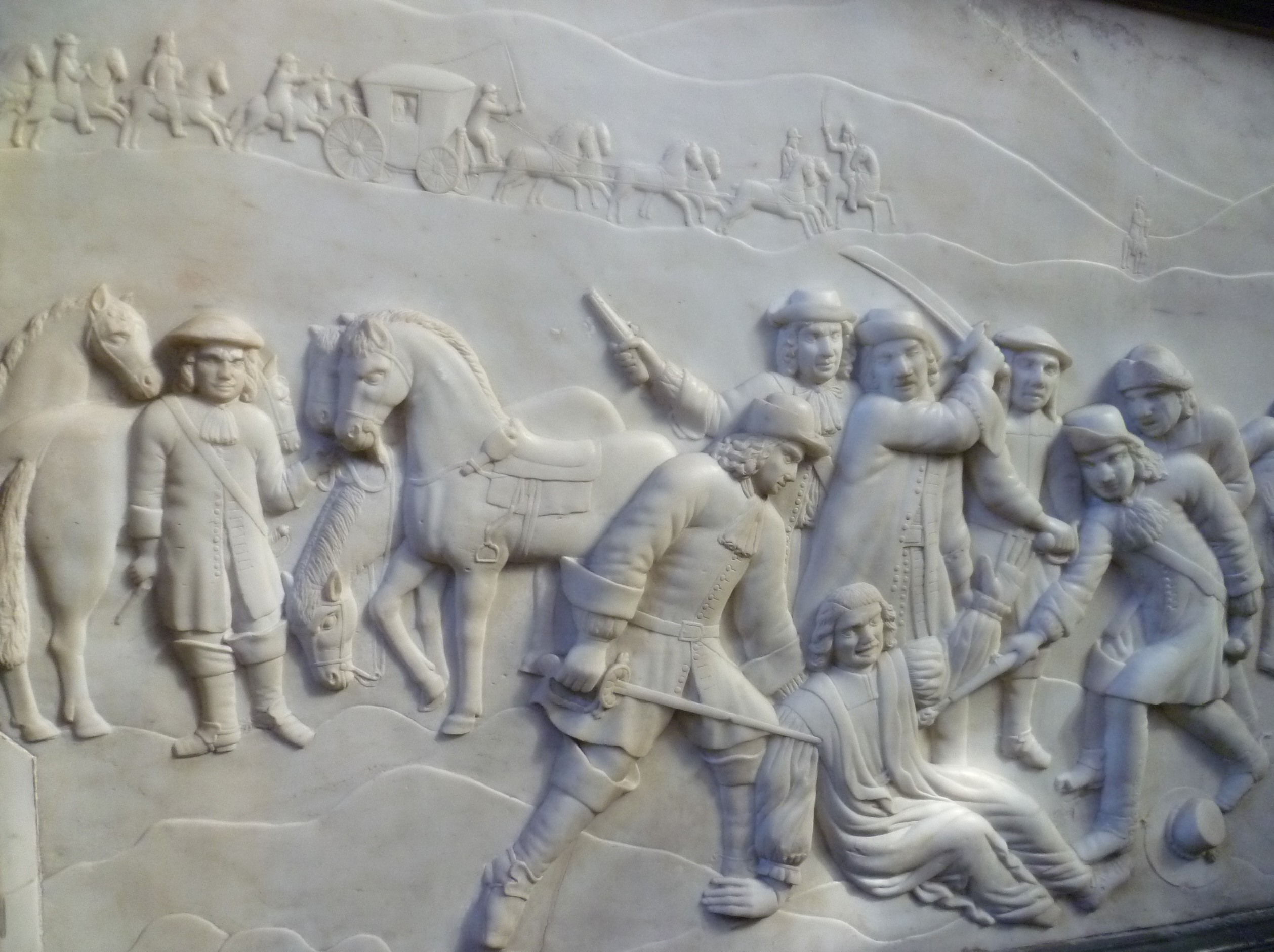 David Hackston portrayal, Archbishop Sharp Memorial, St. Andrews